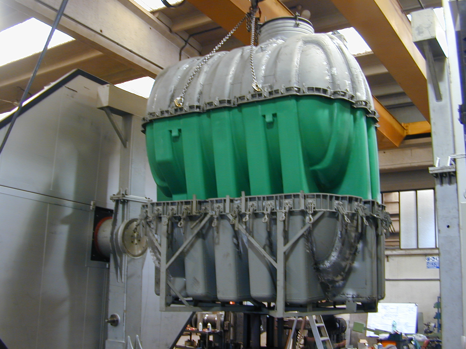 unloading a plastic tank that has been molded in a shuttle rotational moulding machine